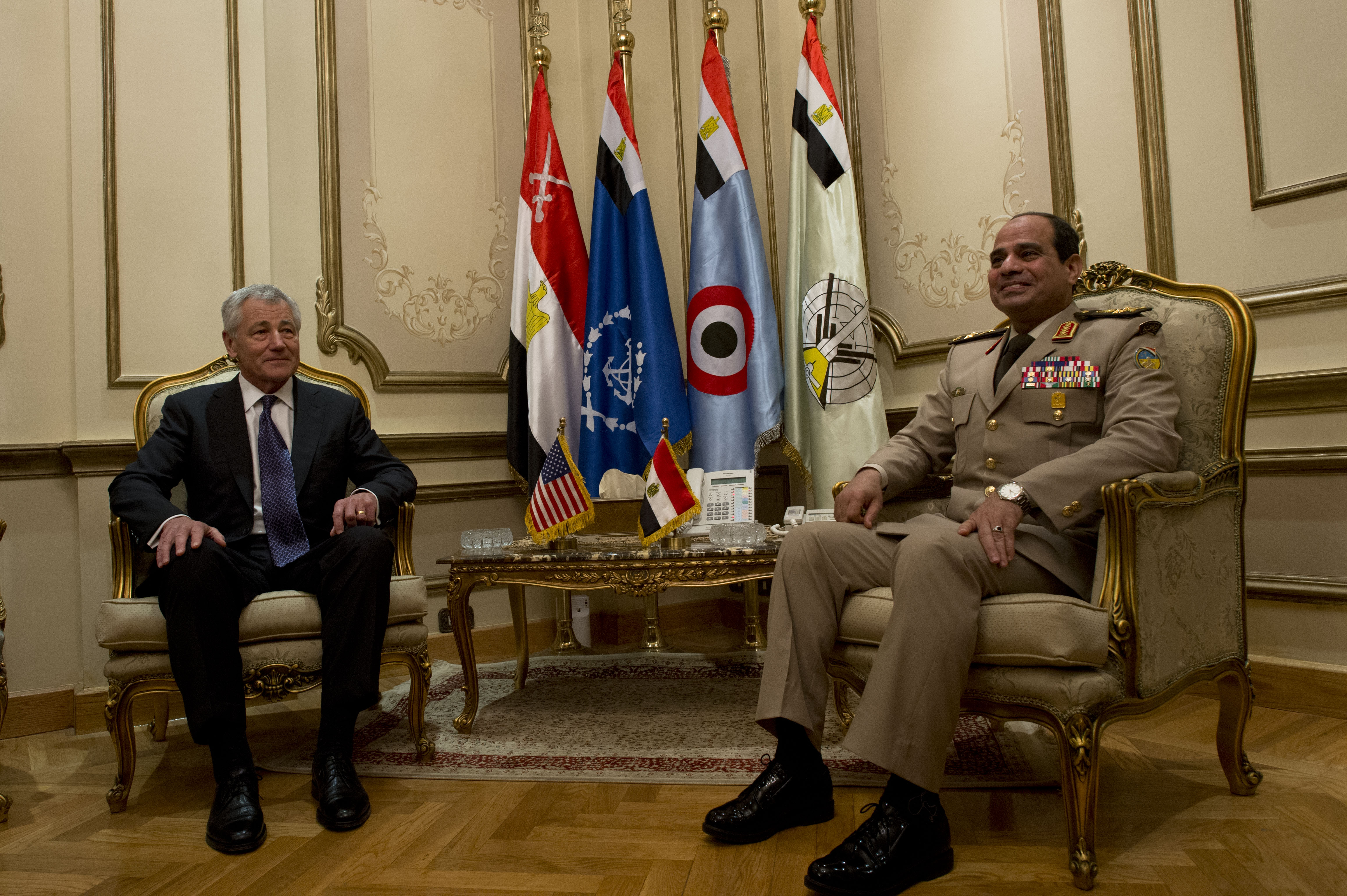 Secretary of Defense Chuck Hagel meets with Egyptian Minister of Defense, Abdel Fatah Saeed Al Sisy, in Cairo, Egypt, April 24, 2013. Egypt is Hagel's fourth stop on a six day trip to the Middle East to meet with Defense counterparts. (Photo by Erin A. Kirk-Cuomo) (Released)